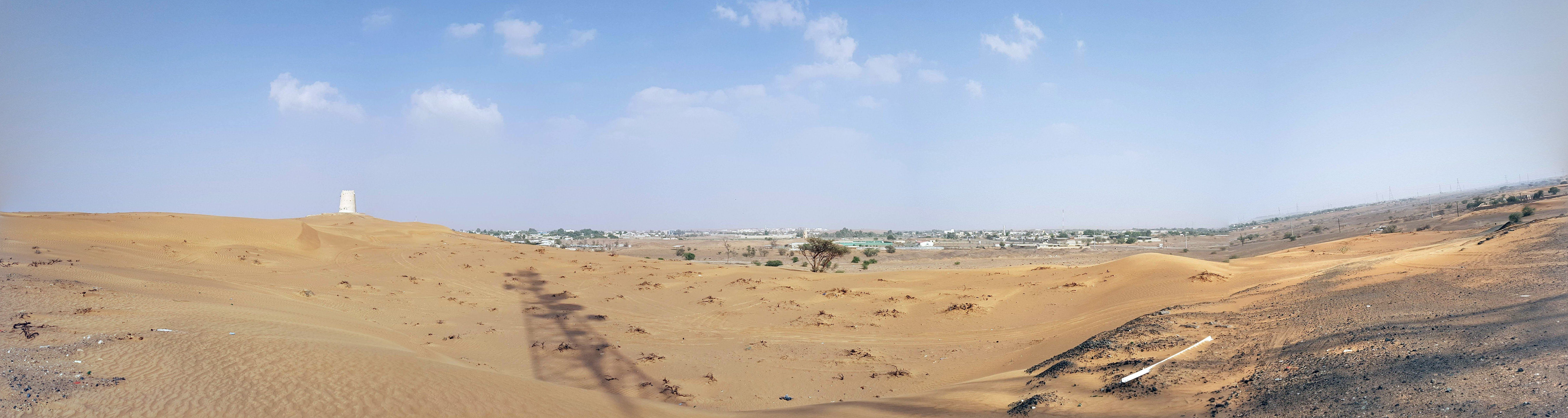 Panorama of Falaj Al Mualla, showing one of two watchtowers which guard the wadi